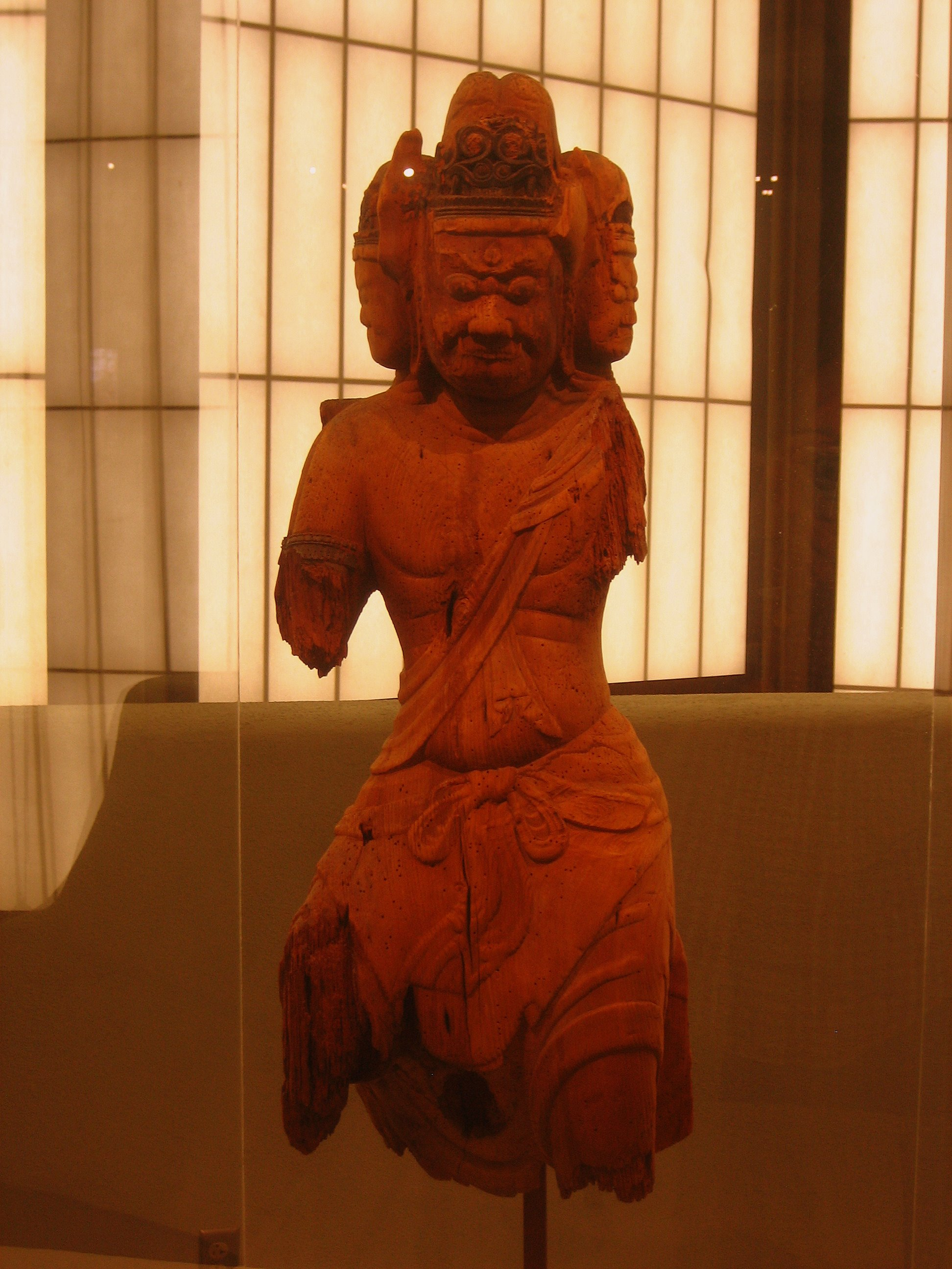 Aizen Myō-ō. Japan. Heian period.10th century. Wood with traces of pigment. Located at LACMA